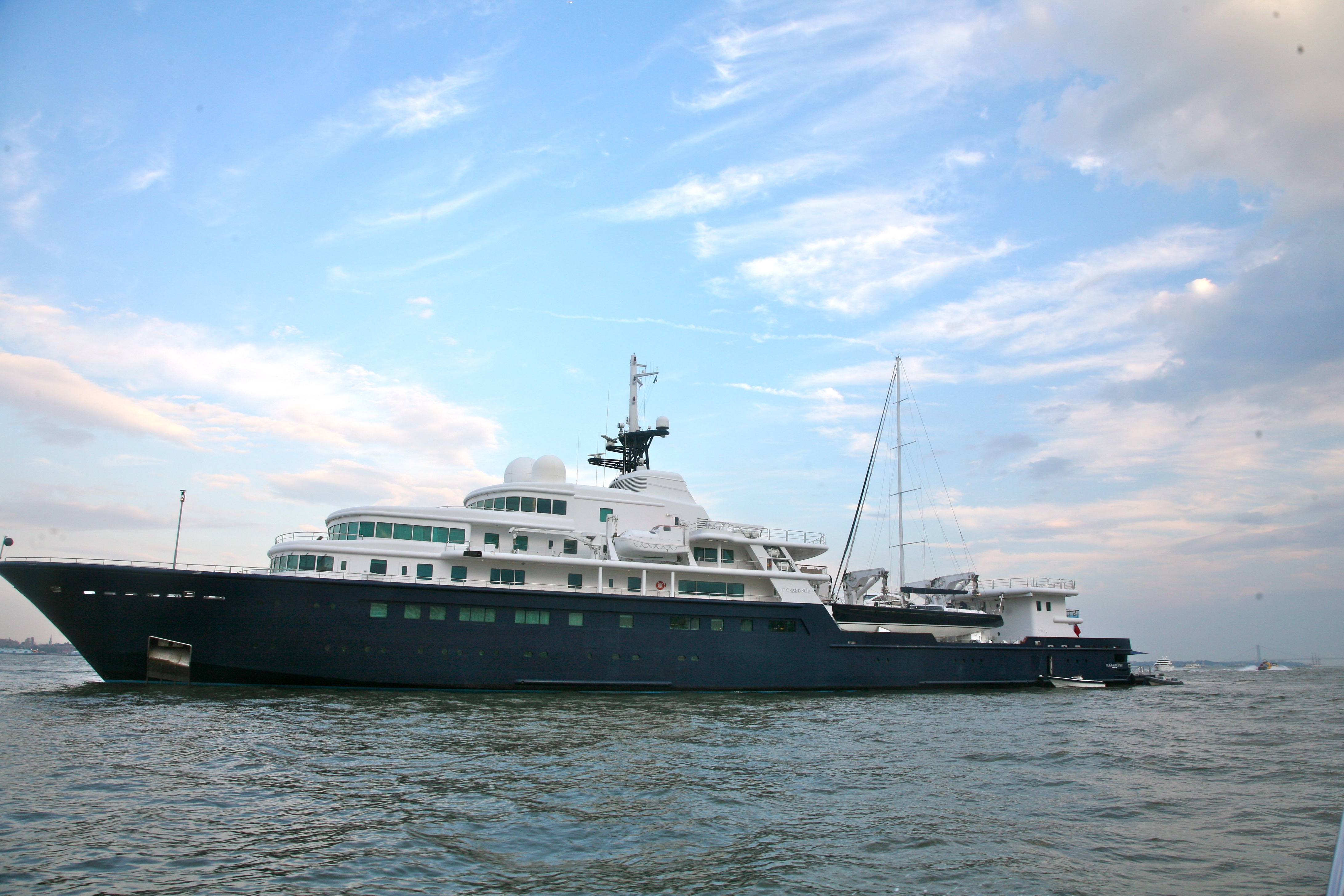 New York, June 27 2009